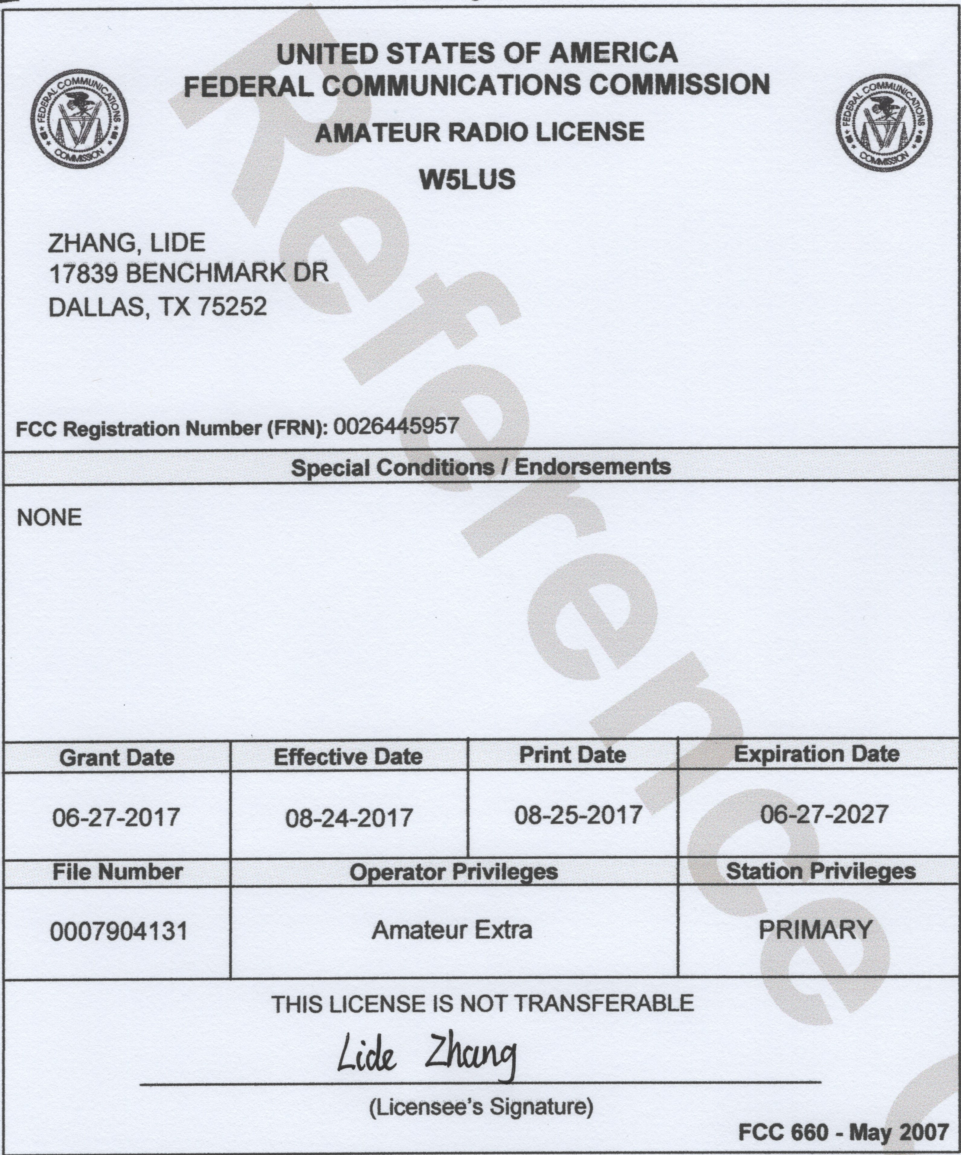 USA FCC Amateur Radio License